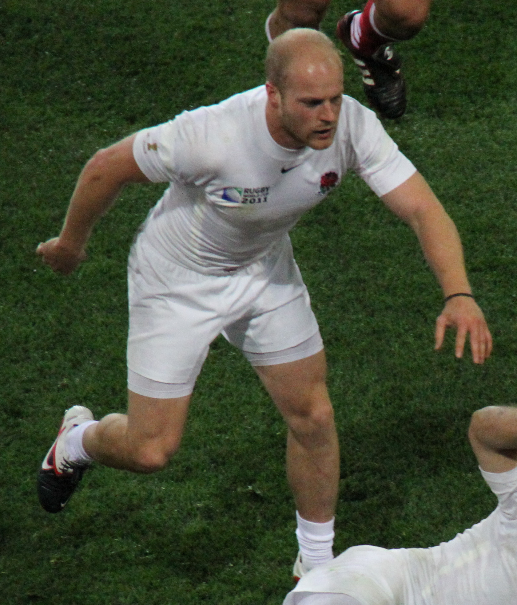 English rugby union player Joe Simpson during 2011 Rugby World Cup match against Georgia.